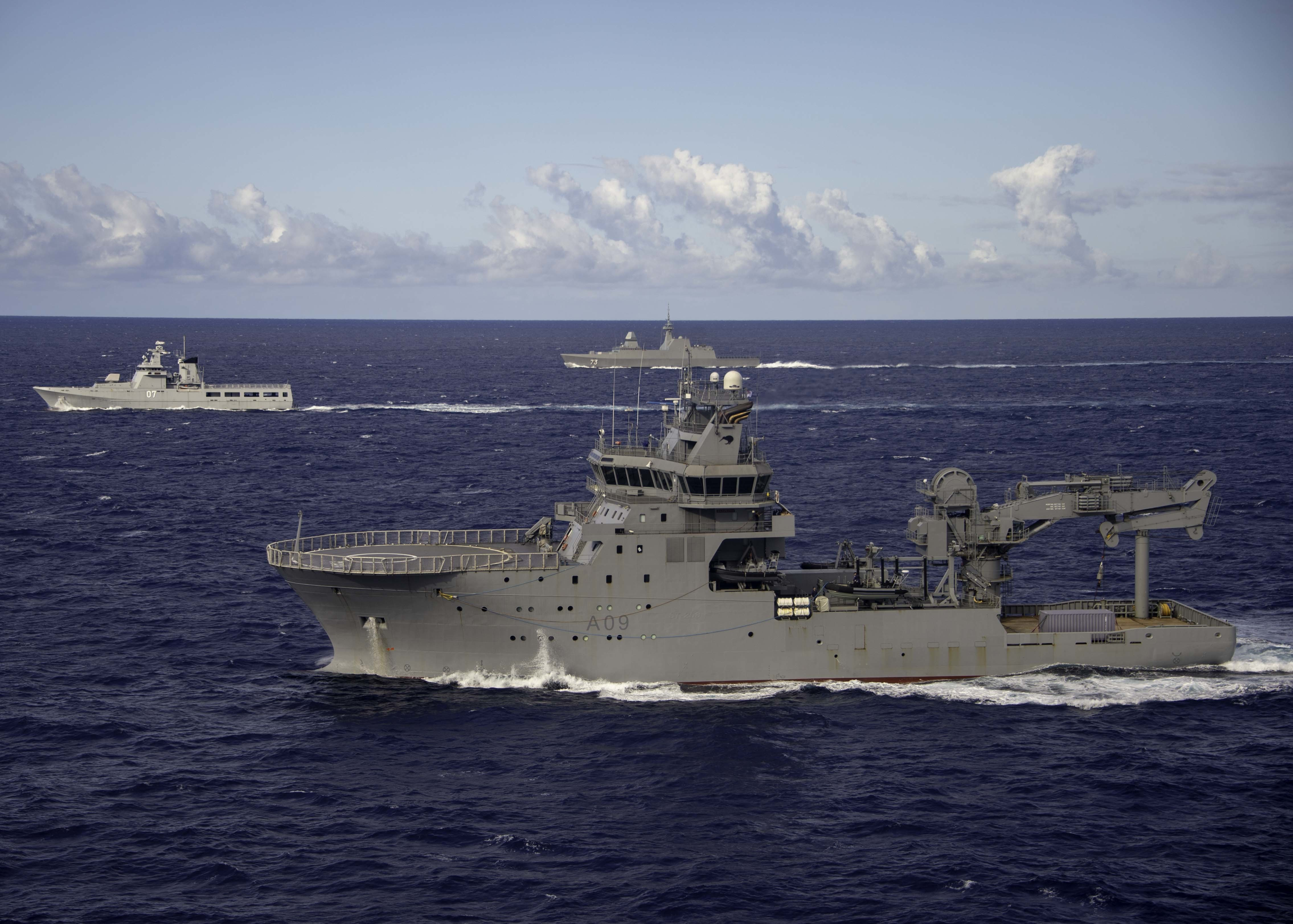 PACIFIC OCEAN (Aug. 18, 2020) Royal New Zealand Navy ship HMNZS Manawanui (A09) maneuvers during a division tactics exercise with Royal Brunei Navy Darussalam-class offshore patrol vessel KDB Darulehsan (OPV 07) and Republic of Singapore Navy Formidable-class frigate RSS Supreme (FFG 73) during Exercise Rim of the Pacific (RIMPAC) 2020. Ten nations, 22 ships, 1 submarine, and more than 5,300 personnel are participating in RIMPAC from Aug. 17 to 31 at sea around the Hawaiian Islands. RIMPAC is a biennial exercise designed to foster and sustain cooperative relationships, critical to ensuring the safety of sea lanes and security in support of a free and open Indo-Pacific region. The exercise is a unique training platform designed to enhance interoperability and strategic maritime partnerships. RIMPAC 2020 is the 27th exercise in the series that began in 1971. (U.S. Navy photo by Mass Communication Specialist 3rd Class Wesley Richardson)